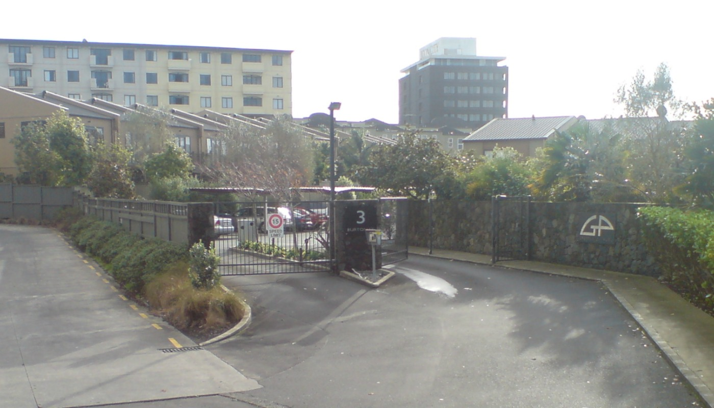 This is a large set of identical townhouses in a crook of SH1 / Khyber Pass / Symonds Street. Closed off from its surroundings. Found it rather horrible...